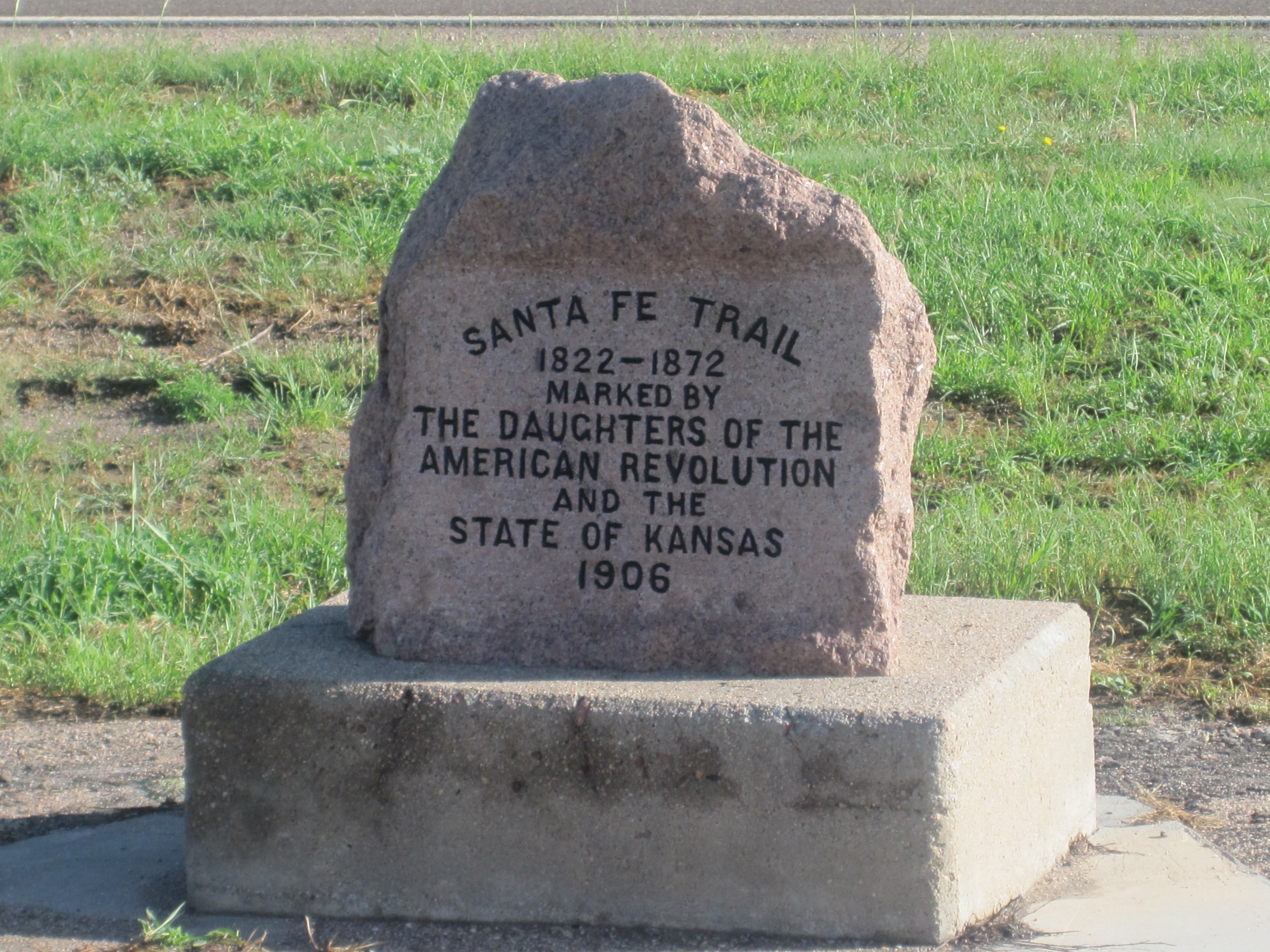 I took photo with Canon camera in Coolidge, KS.